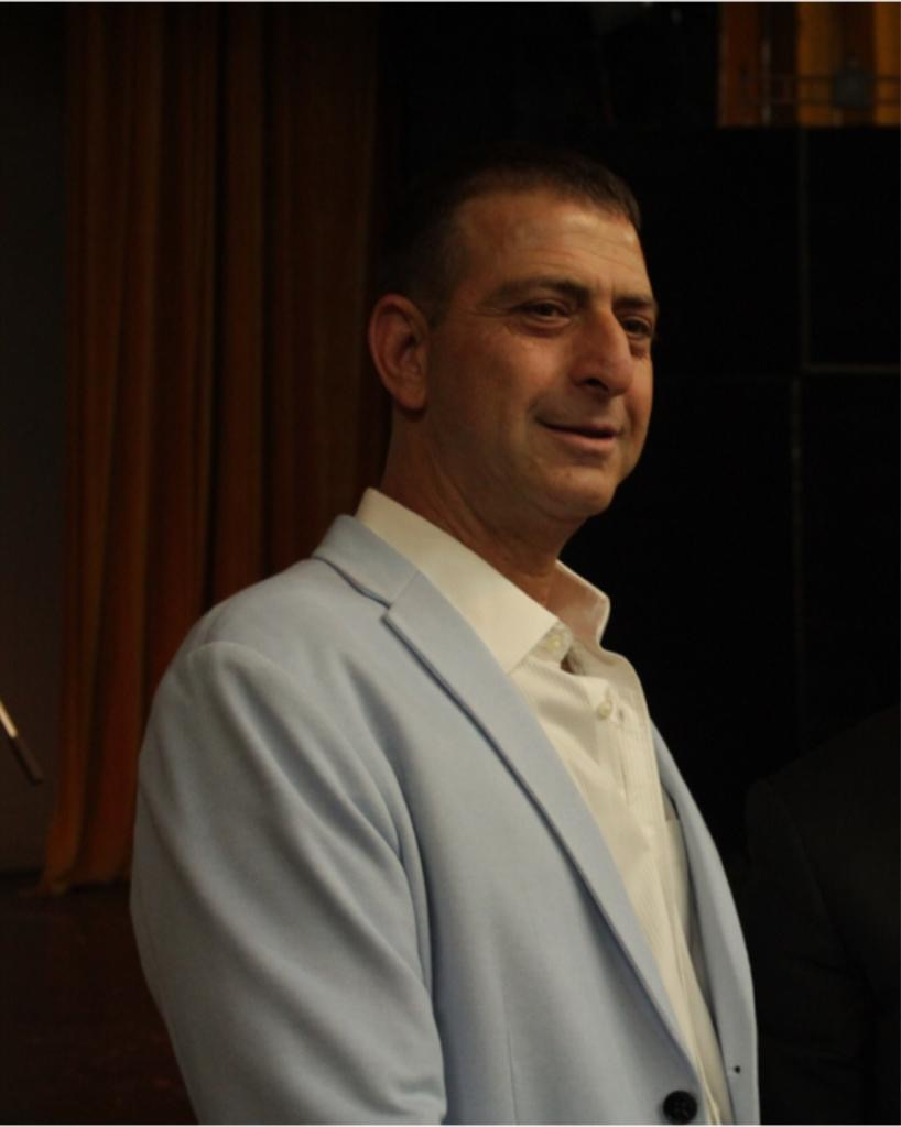 CEO Yiddishpiel Theatre